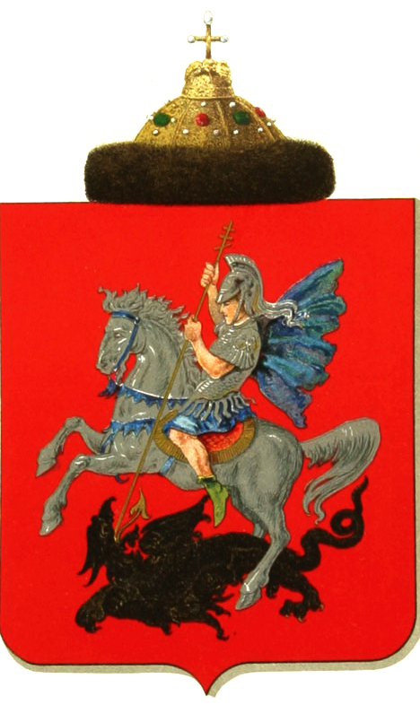 Coat of Arms of Principality of Moscow